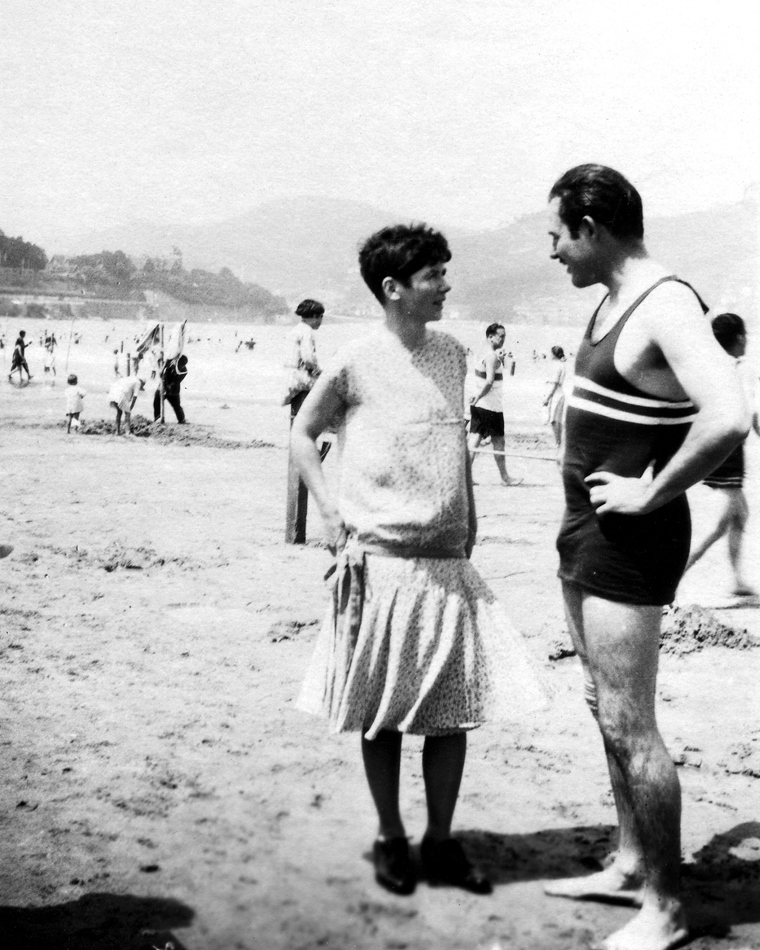 Ernest and Pauline Hemingway, San Sebastian, circa September 1927.